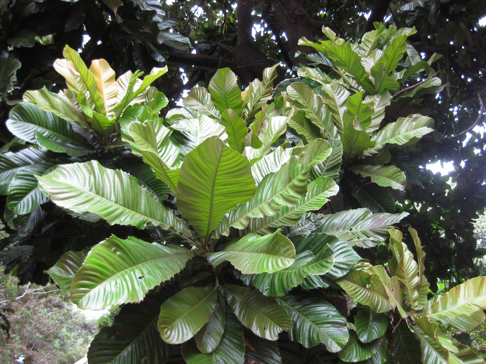 Photographed at the Royal Botanic Gardens Sydney (Australia) in January